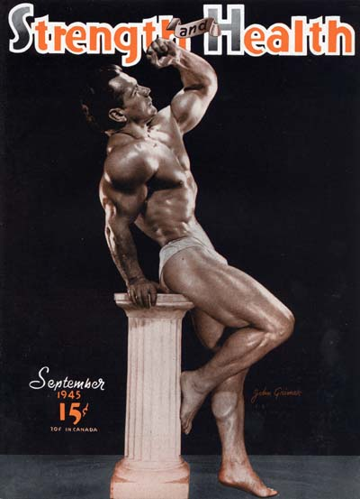 John Grimek on the cover of Strength and Health magazine, September 1945